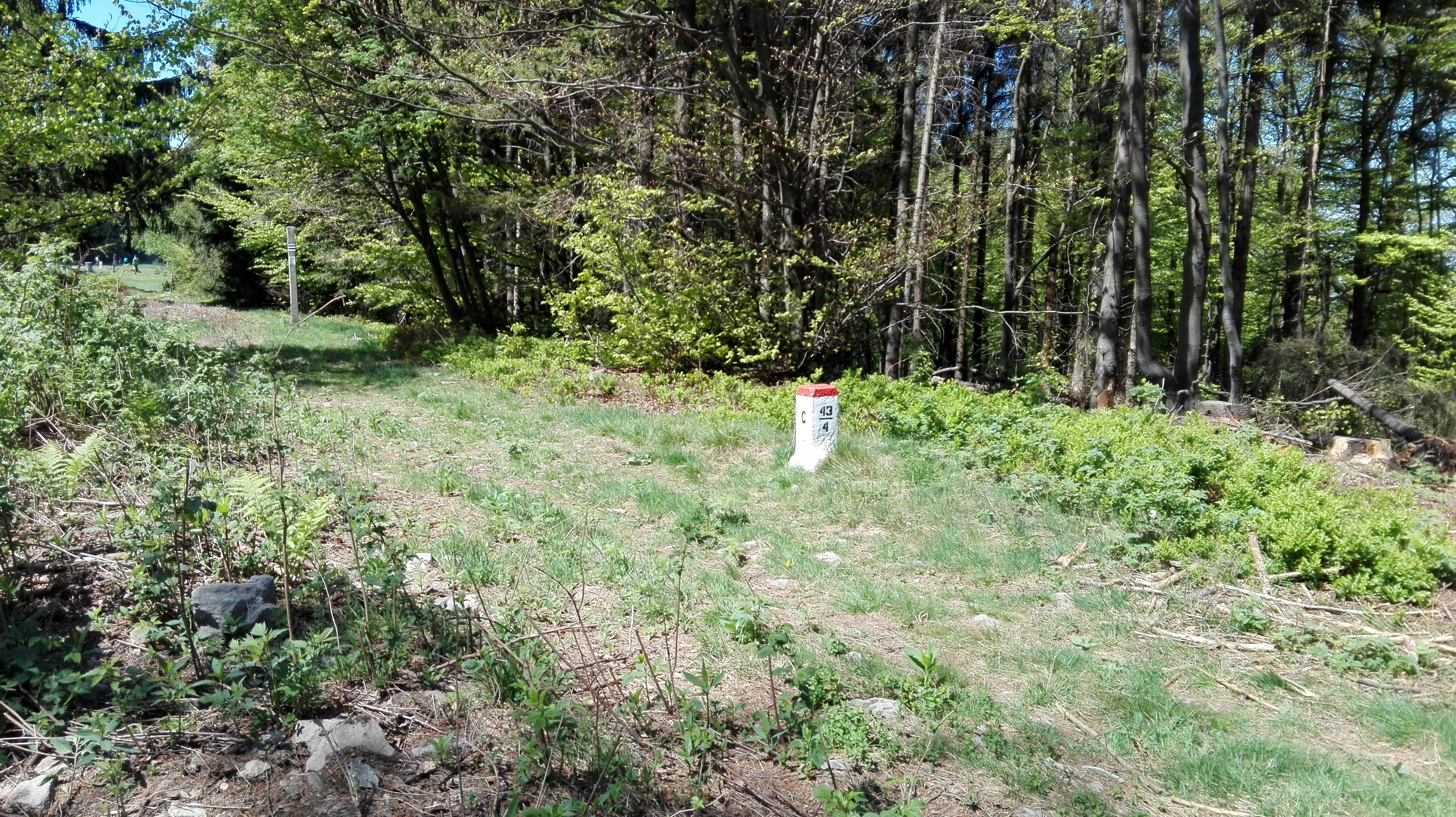 Czech Republic-Poland border, Czantoria